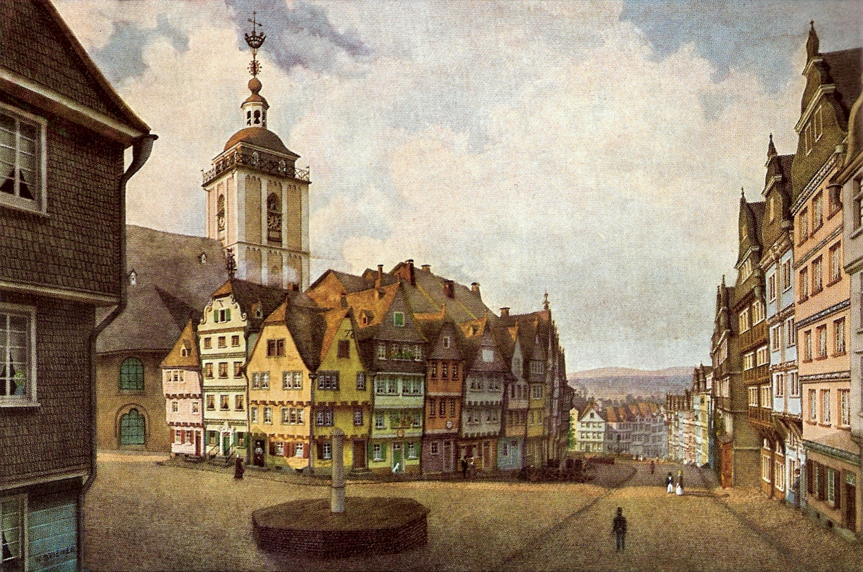 City of Siegen (Westphalia, Germany): St. Nicolas’ church (Nikolaikirche) with the quarter “Klubb” in the foreground, shown in the state of about 1850. Viewn from the east end of Marburger Strasse. Watercolor painting by Wilhelm Scheiner (German painter, 1852–1922) of unknown date.